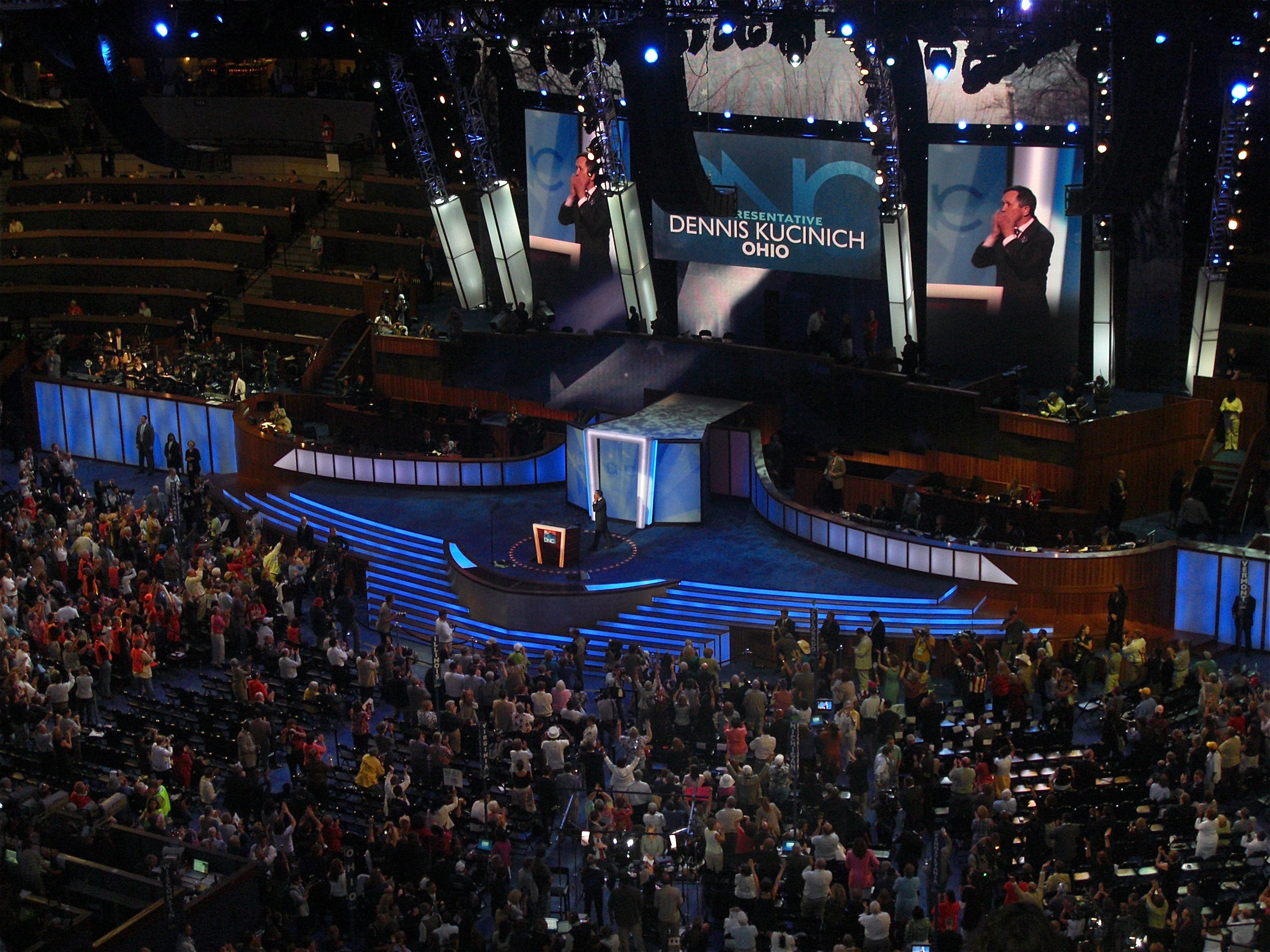 Dennis Kucinich speaks during the second day of the 2008 Democratic National Convention in Denver, Colorado, United States.